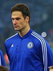 Asmir Begović